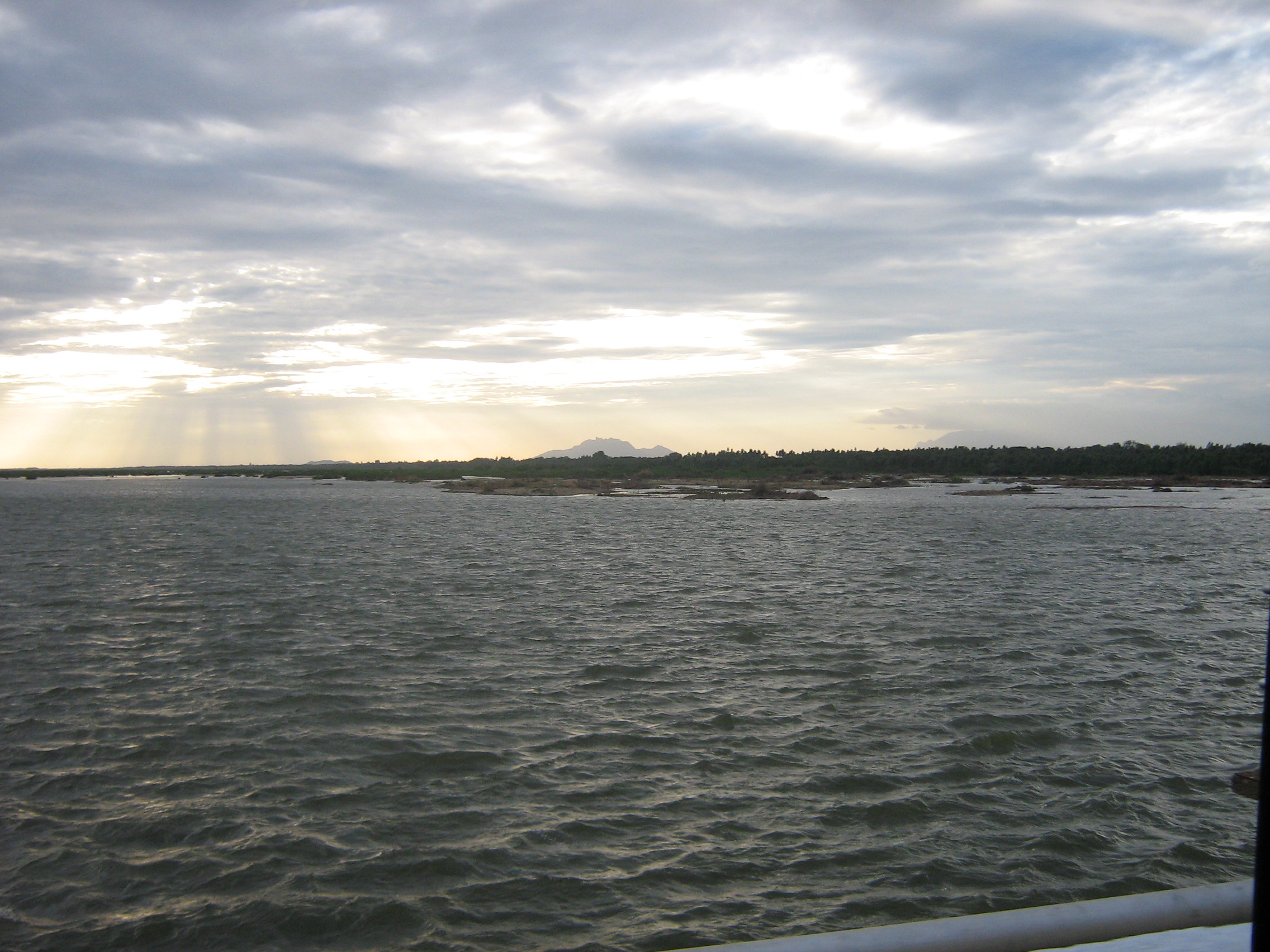 Balaji Viswanathan